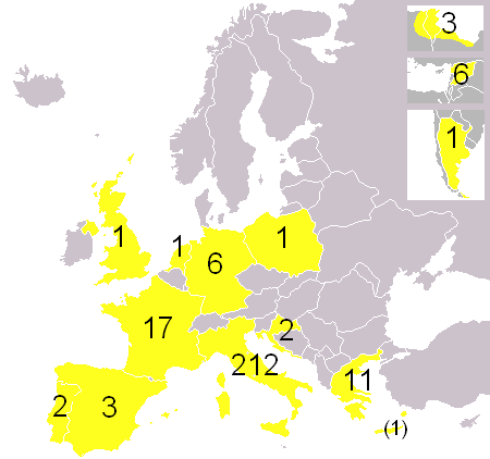 Map of Europe and anothers regions of Asia and Africa. What's detached as yellow is the country or region where one of its inhabitants became a Pope. The number that is on each yellow region assign the number of people of the region that became Pope.